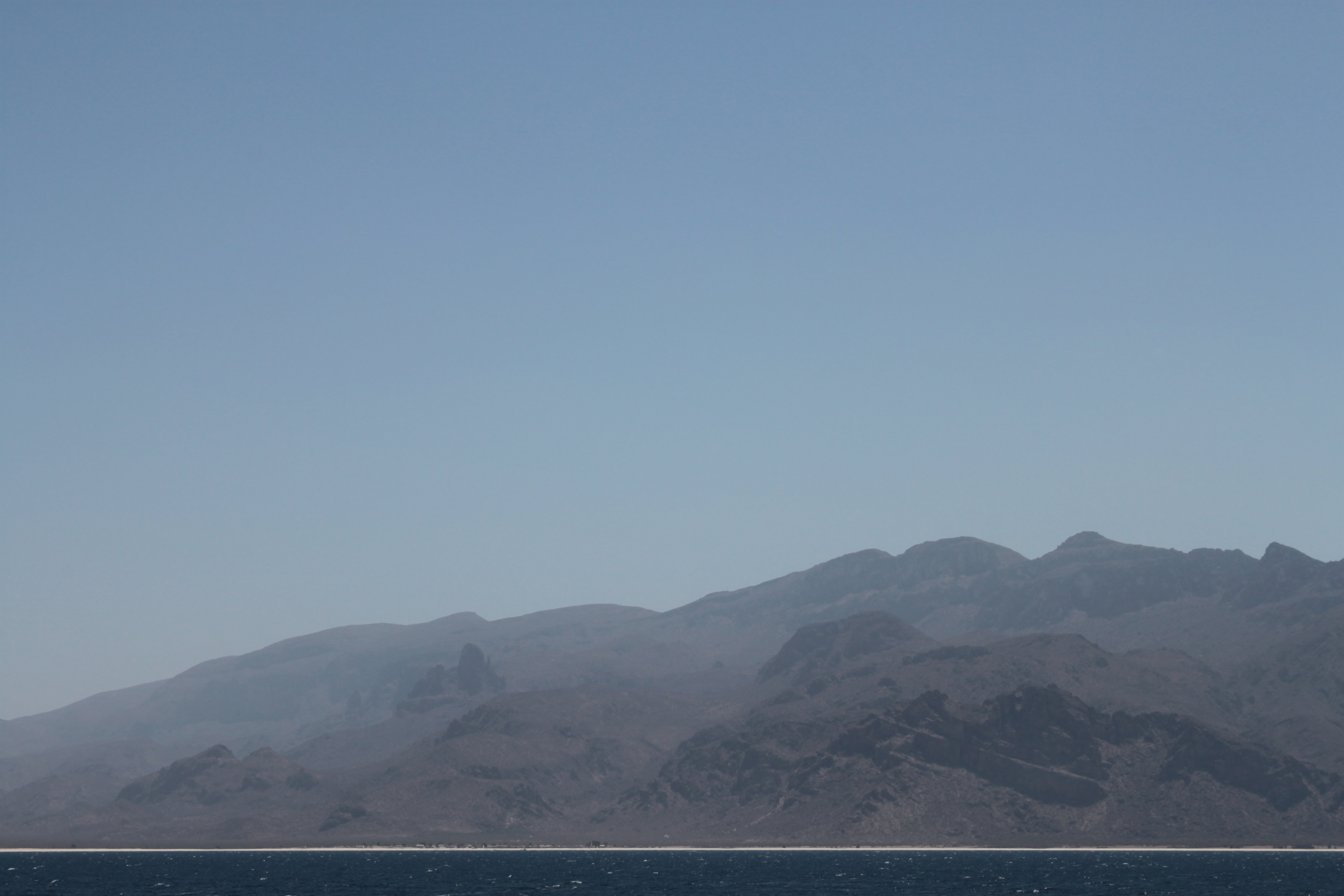 View of Murcanyo from the sea